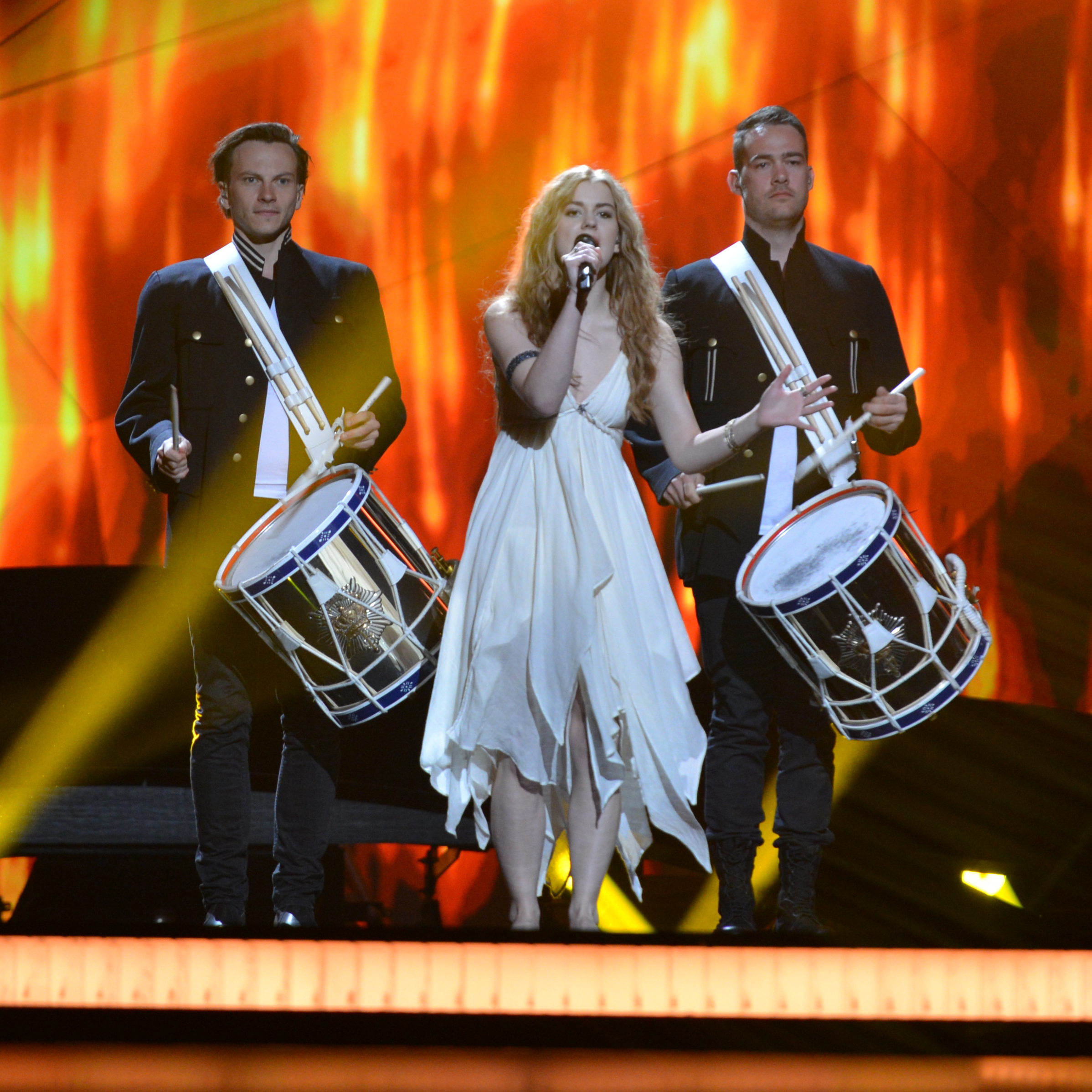 Emmelie de Forest representing Denmark with the song "Only Teardrops" during the first dress rehearsal of the first semi final of the Eurovision Song Contest 2013 in Malmö. (Help translate this text)